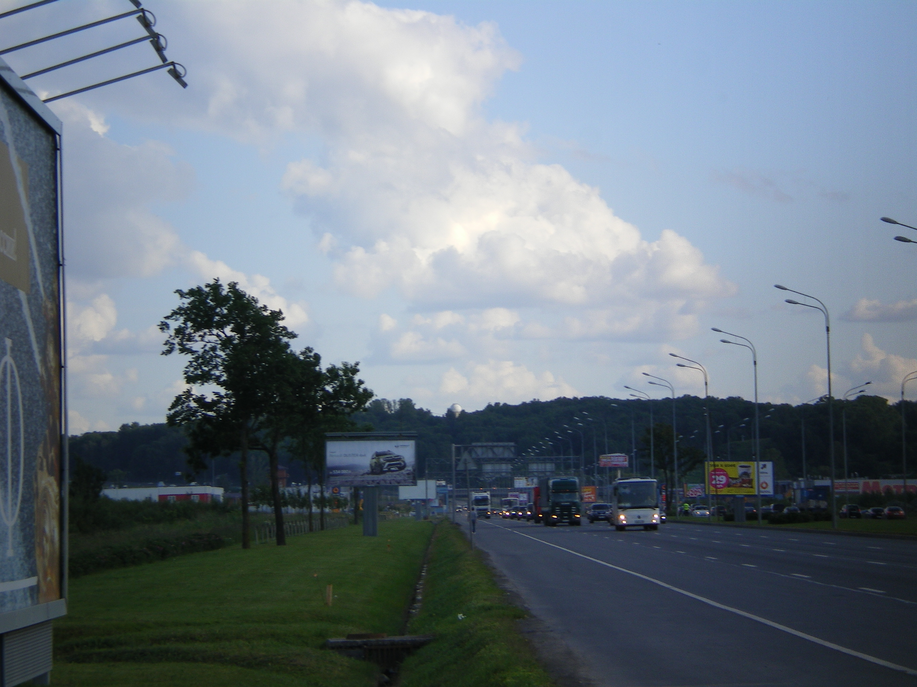 Dalnyaya Rogatka, St. Peterburg